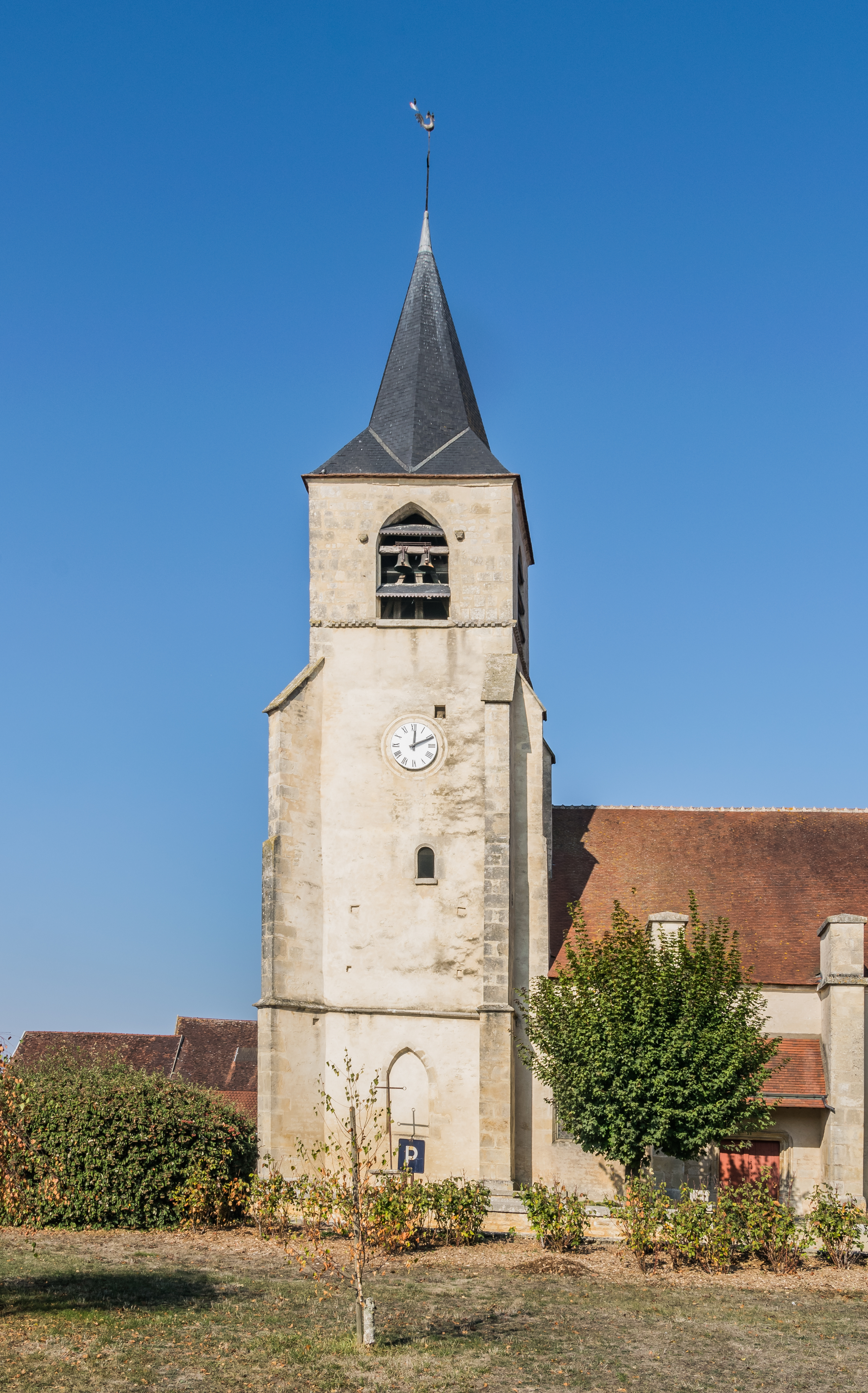 Bell tower of the Saint Christopher church in Nitry, Yonne, France .